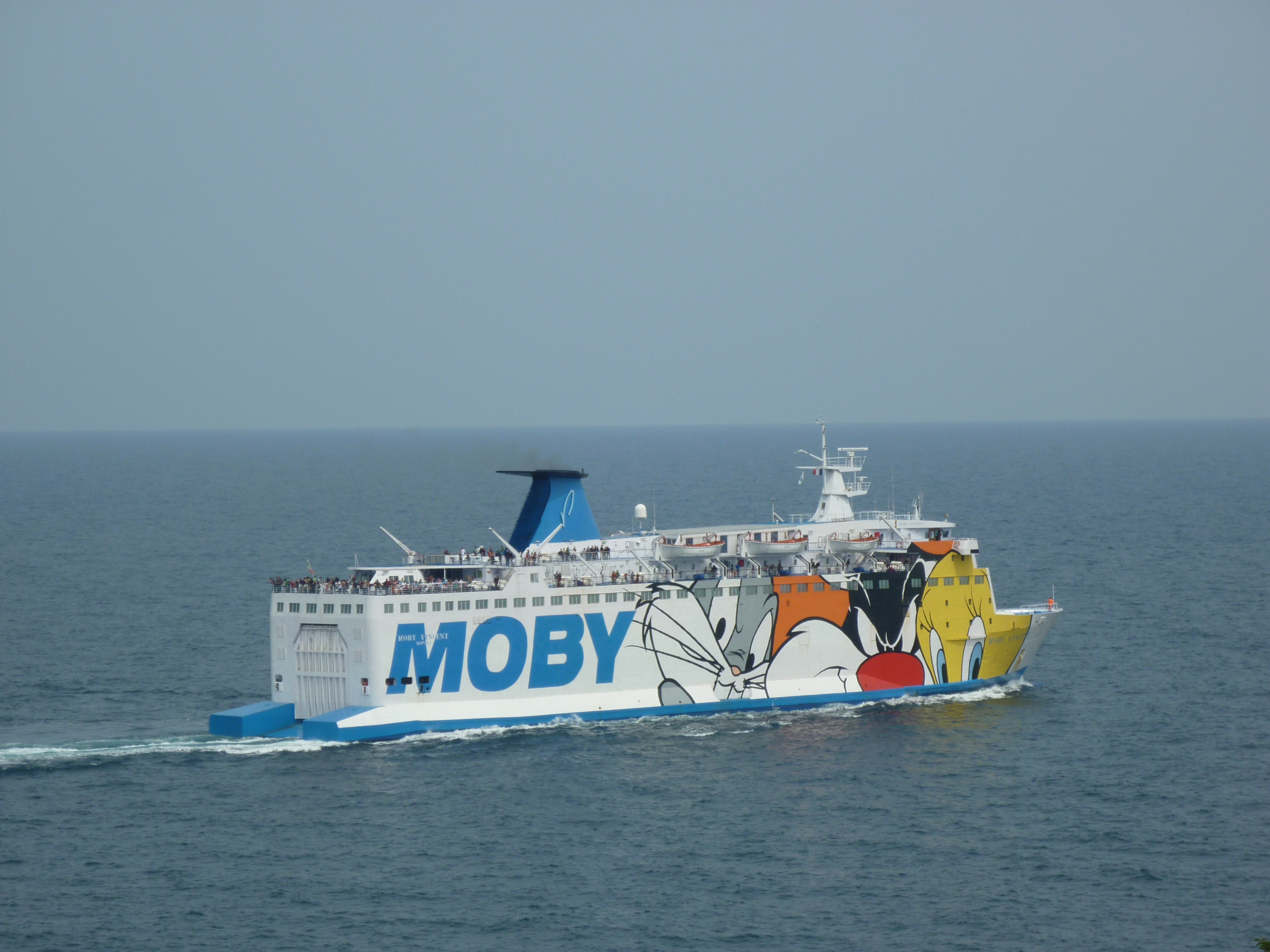 The Moby Lines Ferry Moby Vincent shortly after depart in Bastia, Corse, France.